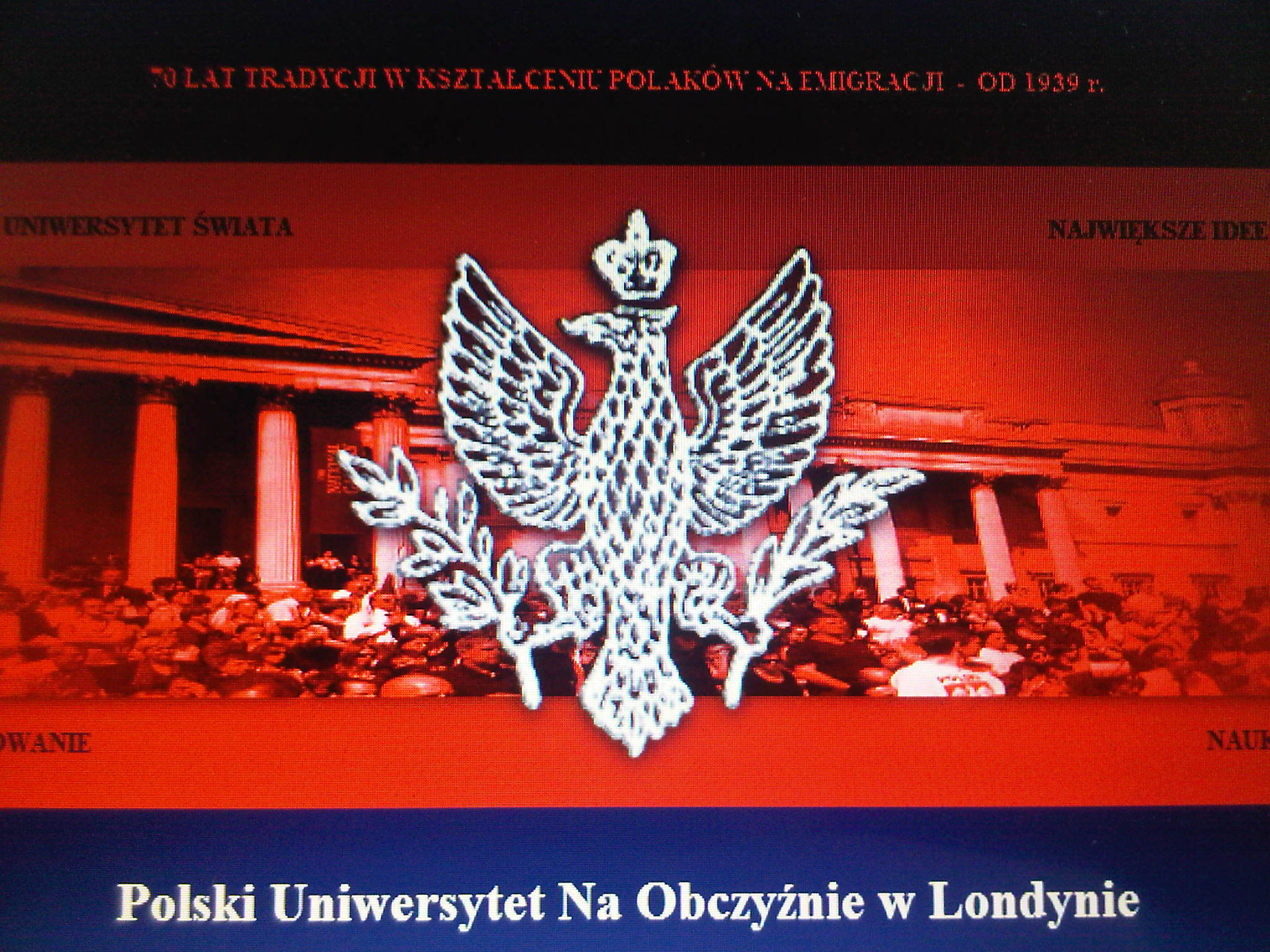 The Polsih University Abroad in London - logo view from website (10/02/2011)